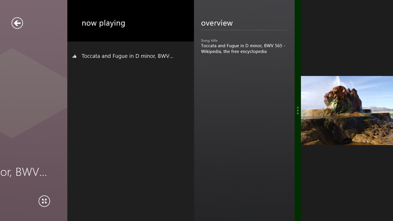 Screenshot of Windows 8's Xbox Music app playing Toccata and Fugue in D minor, BWV 565 in right and Photos app in left showing an image of Fly Geyser in the Black Rock Desert, Nevada.